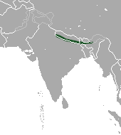 Hispid Hare (Caprolagus hispidus) range, with national borders added